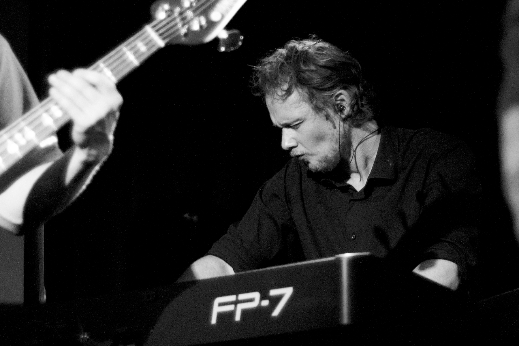 Thomas Andersen of Gazpacho